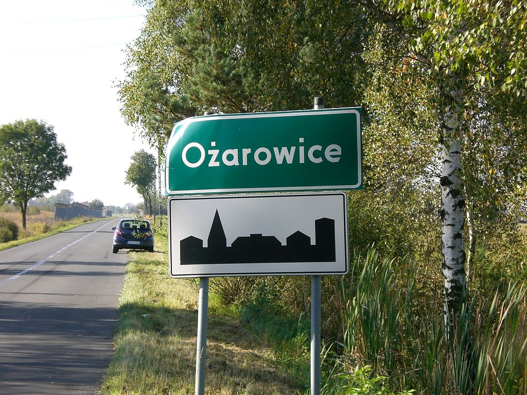 Nameplate from village Ożarowice